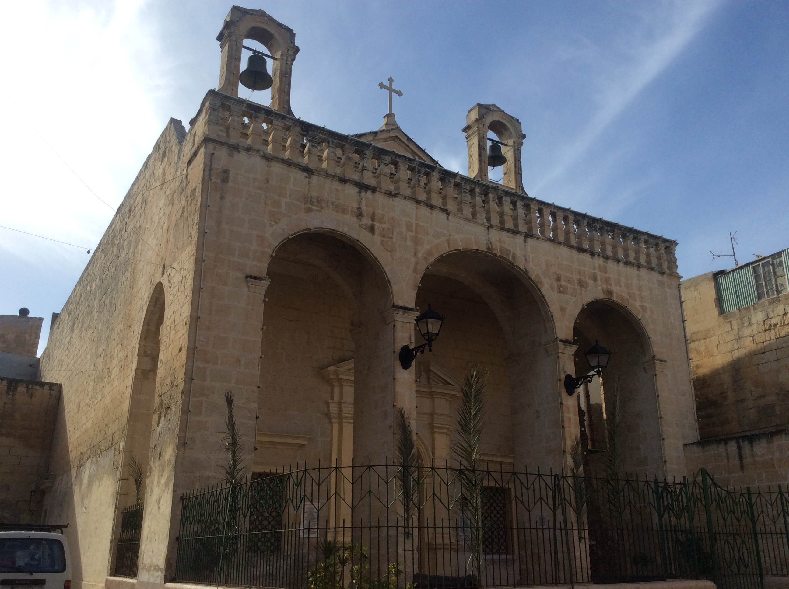 Antocia Chapel Hamrun